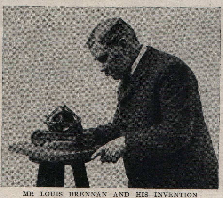 Author:Martin Cordon, Source: Scan of a picture in the 1912 edition of Harmsworth Popular Science, published in the United Kingdom by Amalgamated Press, Edited by Arthur Mee. The publication is 95 years old therefore out of copyright. Martin Cordon 18:07, 6 May 2007 (UTC)